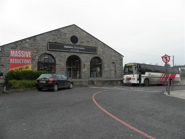 Upstairs Downstairs, Monaghan. It is located beside the bus station